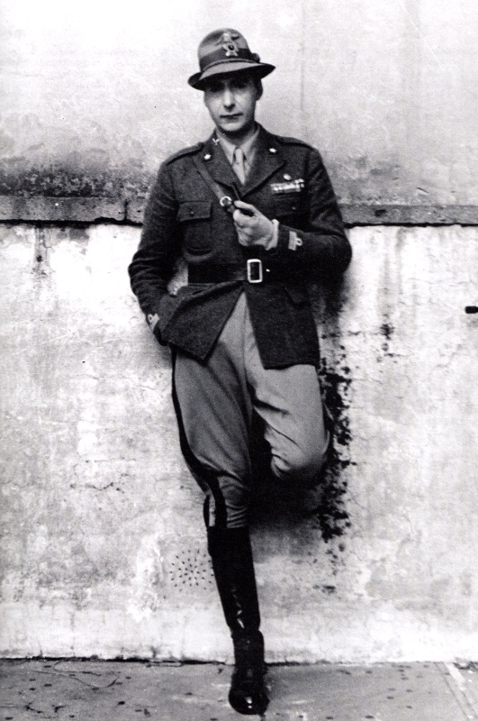 Malaparte alpino